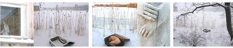 Photos and On-site works made at Helsinki